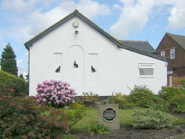 Cat I'th'Window This cottage, on the North side of the A5209 has some local notoriety. The plaque reads "Originally a farmhouse with a fine thatched roof, it was burned down in 1901 and later rebuilt. Tradition says that the silhouette cats in the blank windows are successors of the plaster cats originally used in the old days of the early catholic persecution to indicate that a Mass was to be held in nearby Standish Hall, or to warn Catholics that government troops were in the area. Alternatively, they may have been a dairyman's sign."